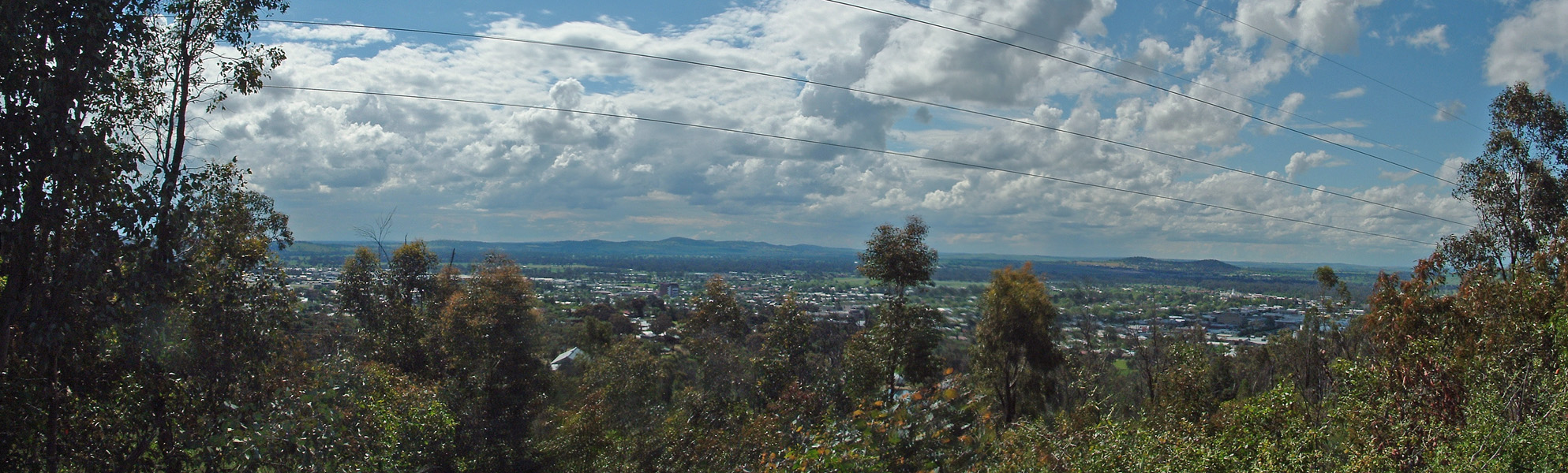 Looking Northwest over the City of Wagga Wagga on Willans Hill. Photo taken by Bidgee